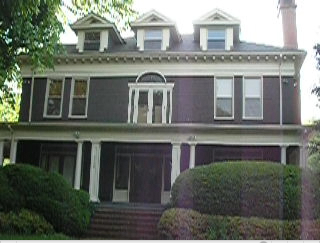 4906 Roland, Baltimore MD / O.E. Adams